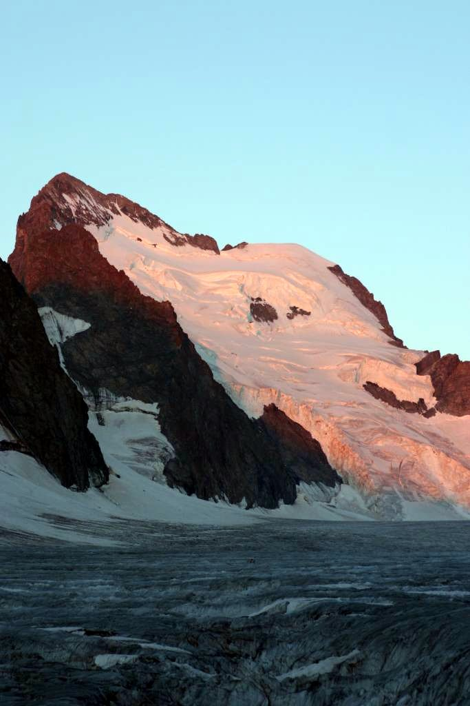 Barres des Écrins in early morning light, viewed from Glacier Blanc